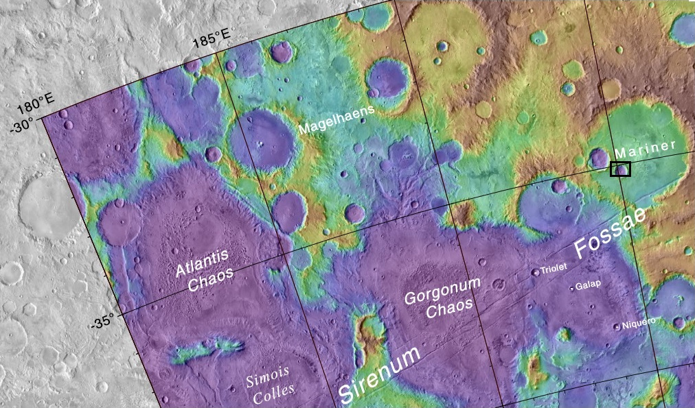 Map showing Mariner Crater and nearby features. Black and red boxes show locations of some pictures from CTX and HiRISE.